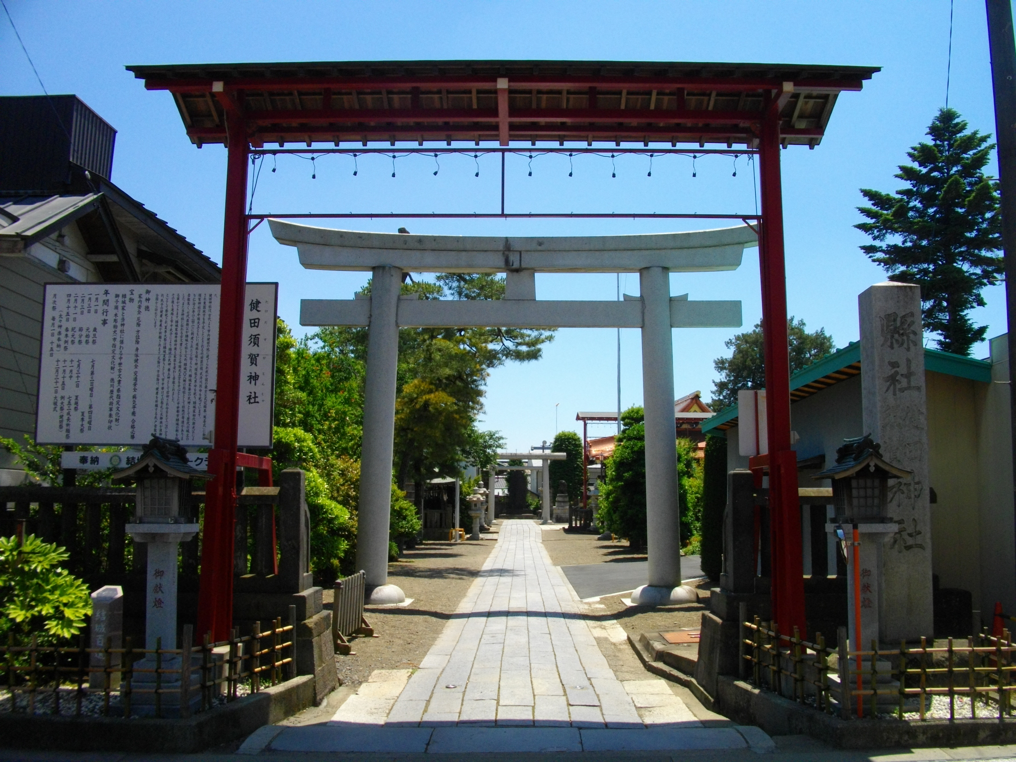 Takedasuga Jinja